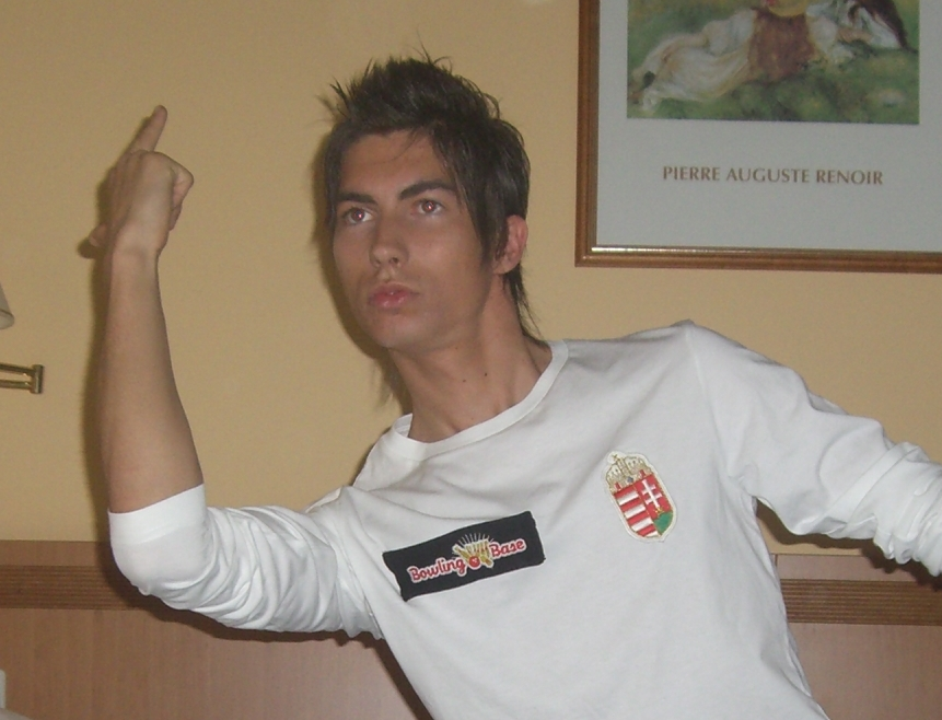 Tarsoly Alexander in Berlin